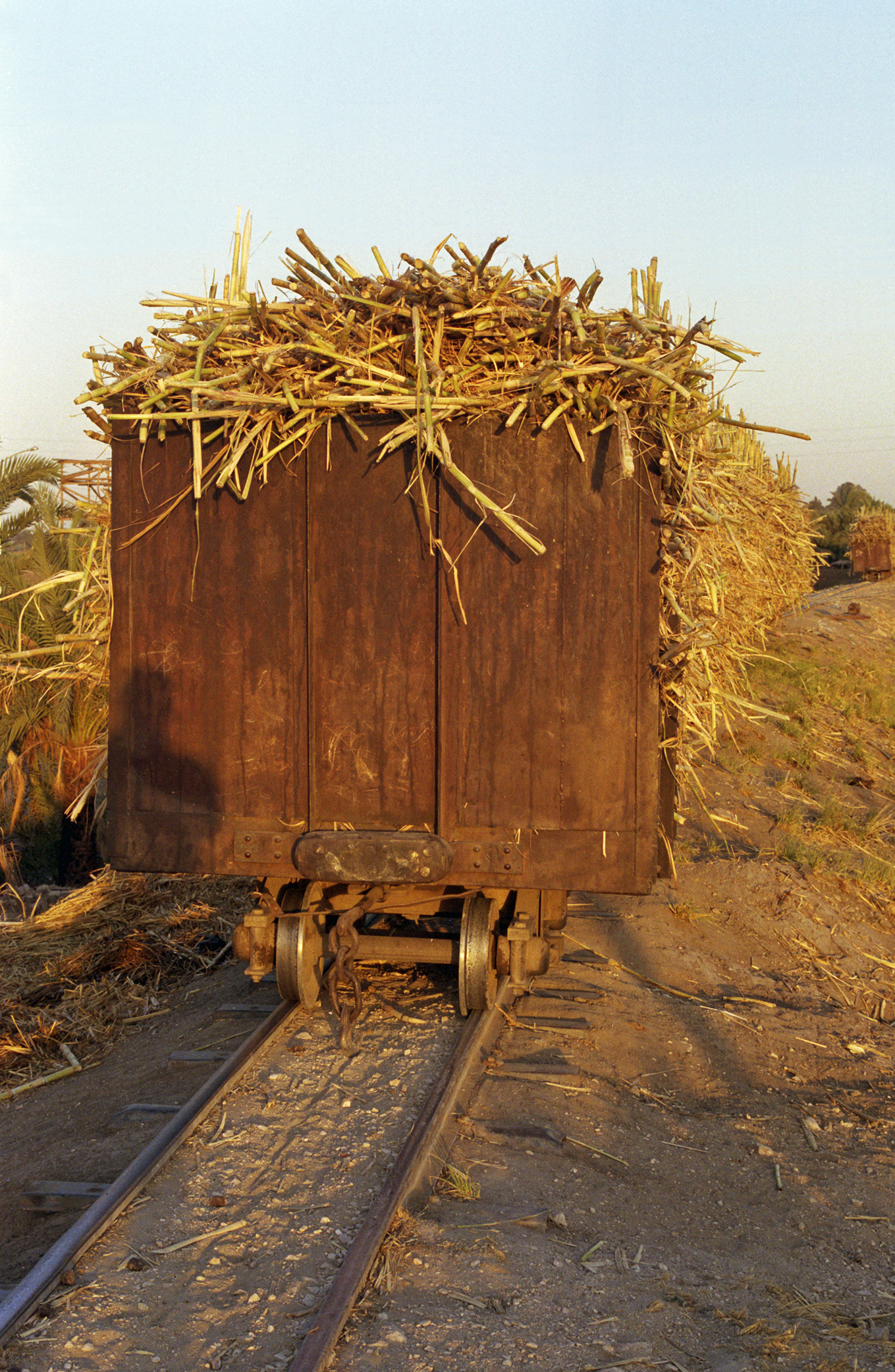 Wagon on the narrow gauge railway at Qurna, near Luxor (Egypt), used for transporting sugar cane